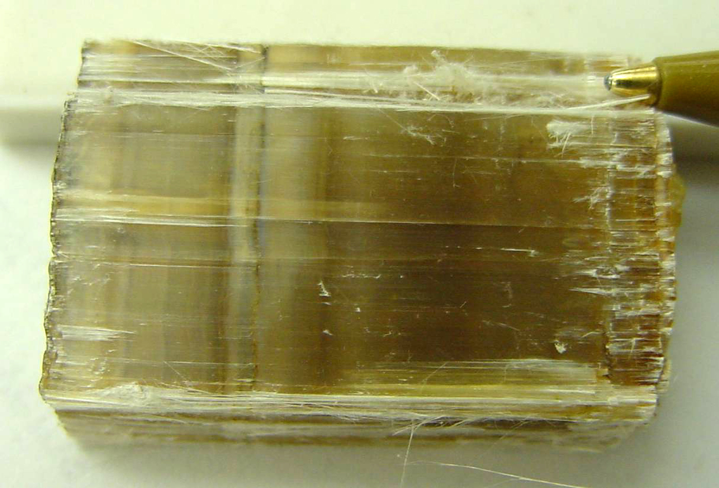 Chrysotile (pen for scale) Mineral collection of Brigham Young University Department of Geology, Provo, Utah. No BYU index